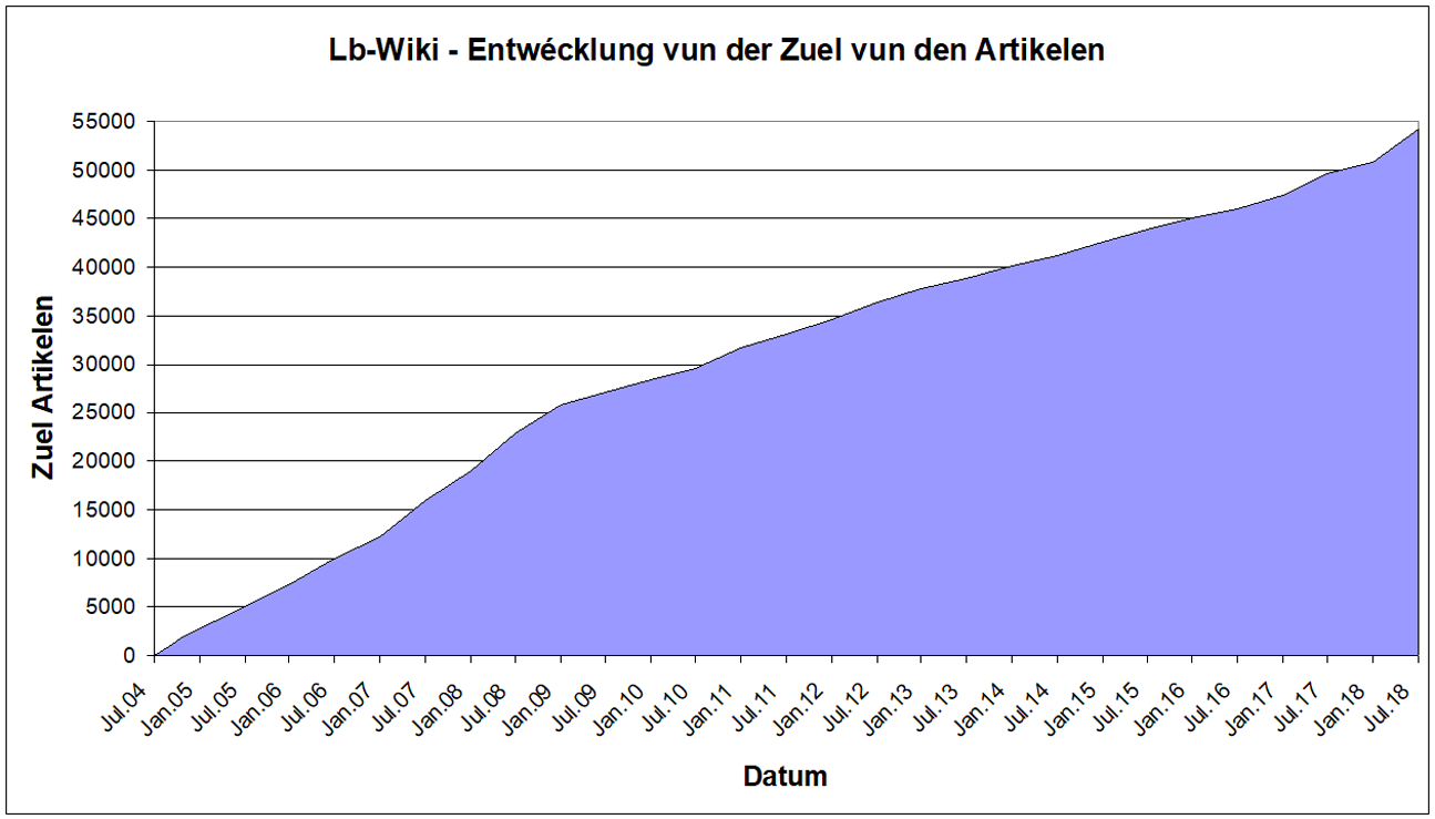 Evolution of the article number of the lb-wiki (Situation on 1st July 2018)